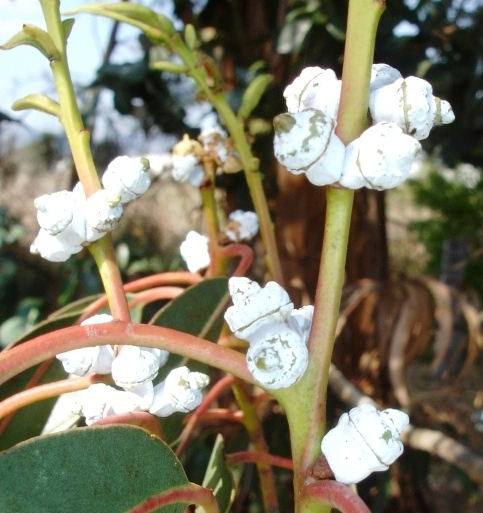 HelloMojo 05:10, 15 April 2007 (UTC)